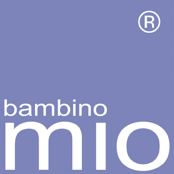 Bambino Mio square logo